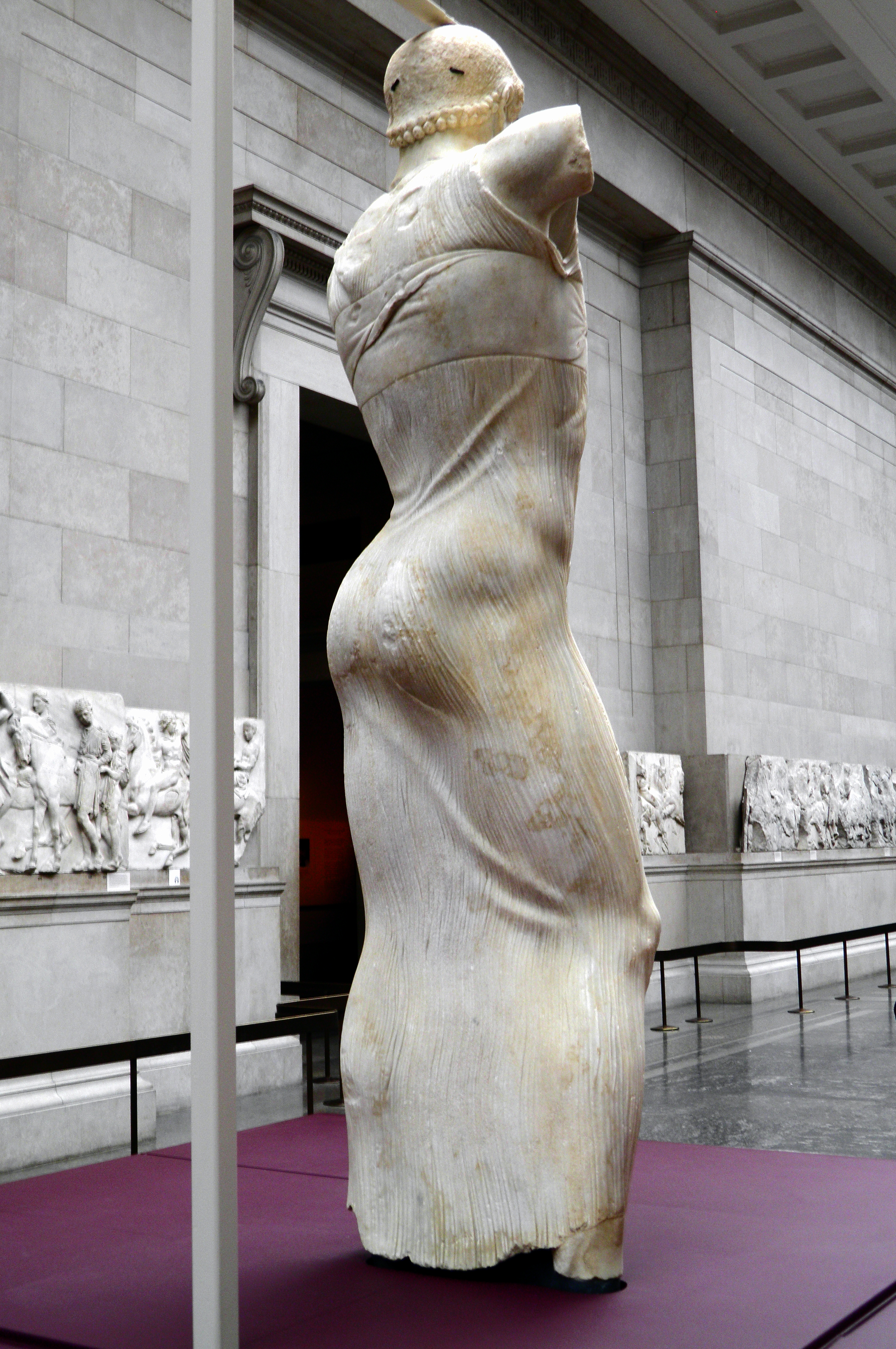 Marble from Greece or Turkey. This is a very rare surviving example of an original Greek victor statue. The athlete stands in a confident pose, raising his right arm probably to place or adjust a victor's wreath on his head. The wreath would have been metal attached to the head by pins. The statue is renowned for its remarkable touches of realism, such as the way the fingers of the left hand press into the hip and pull the fine fabric.